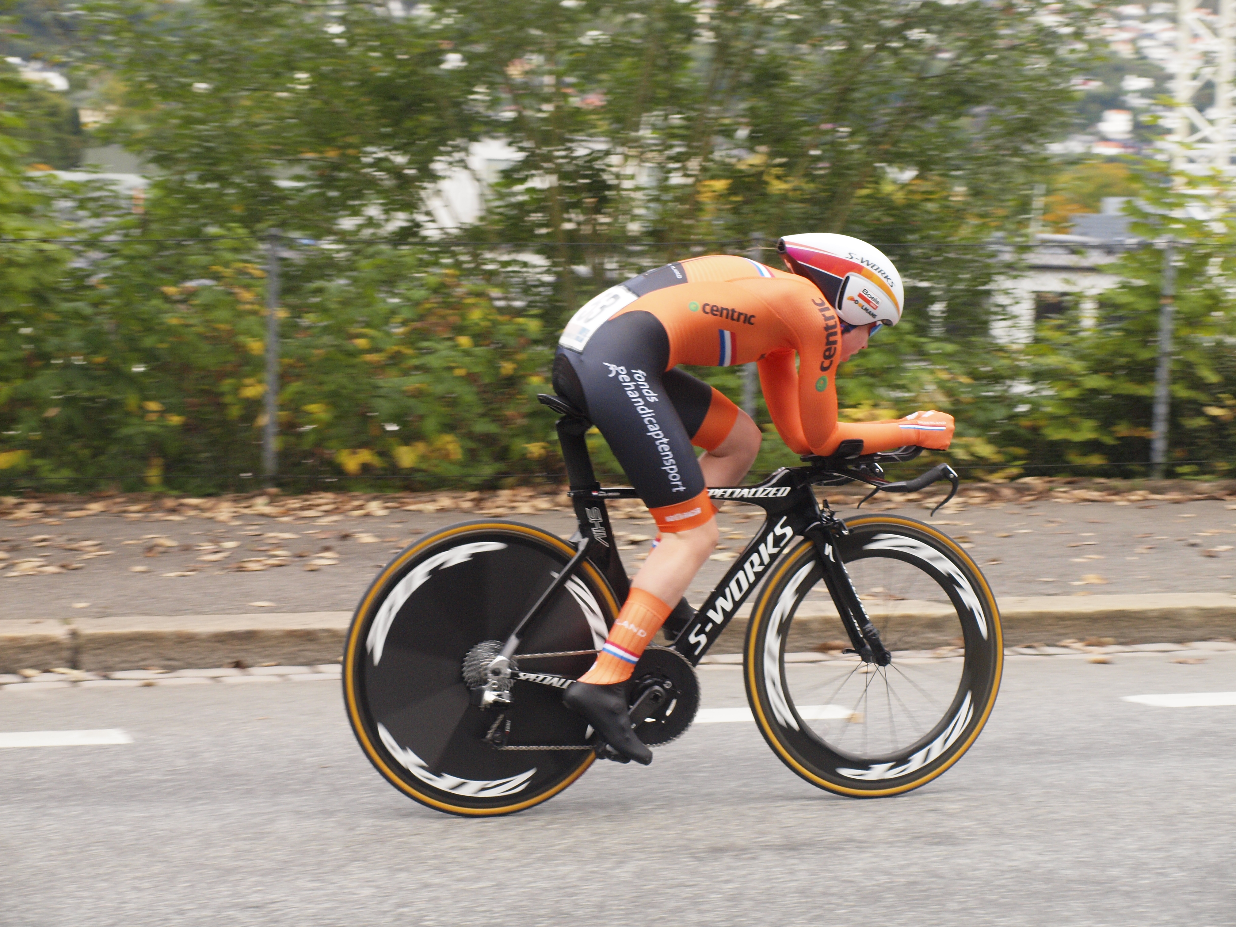 Anna van der Breggen at the 2017 UCI World Championships